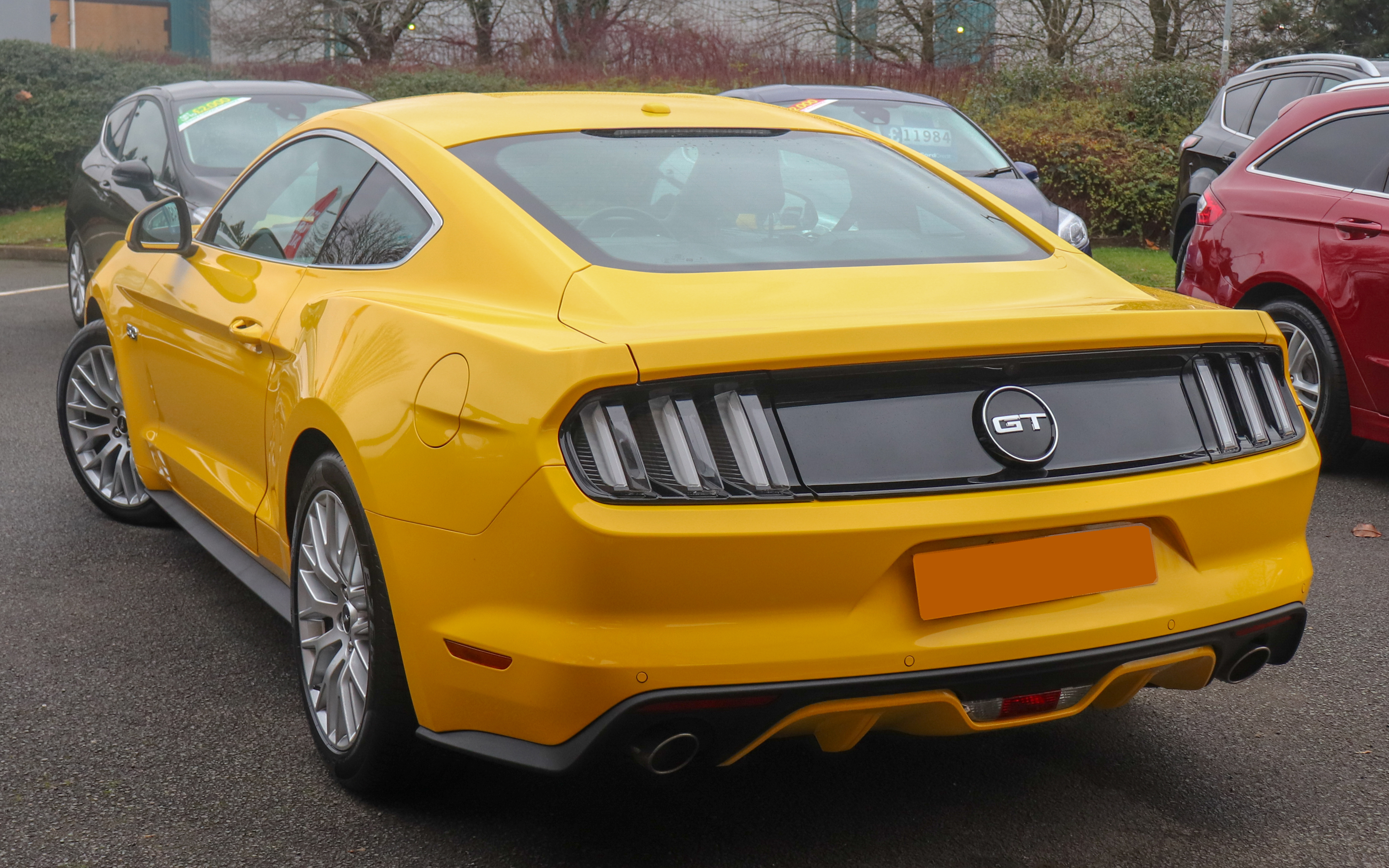 2018 Ford Mustang GT 5.0 Rear Taken in Leamington Spa